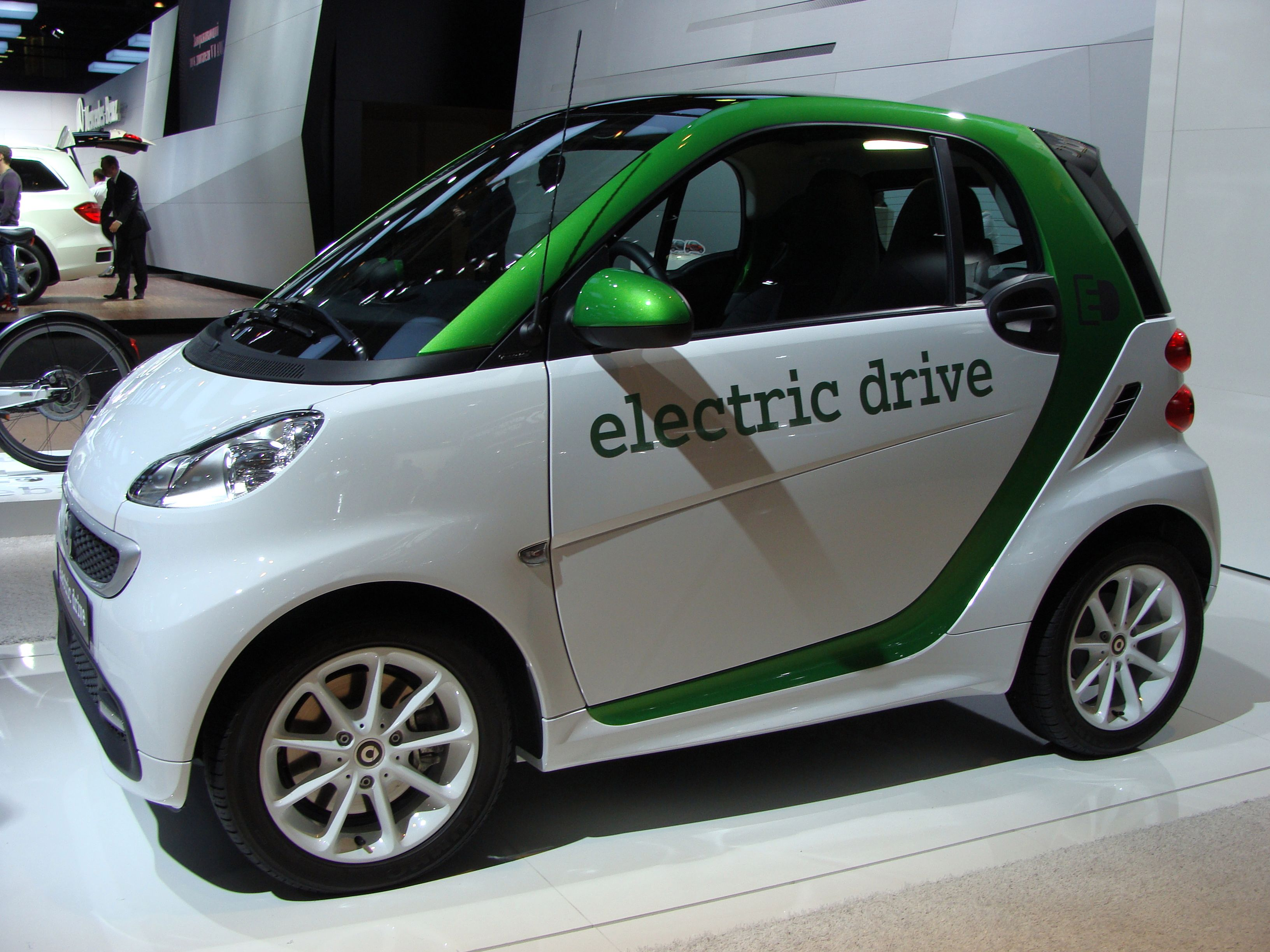 Smart ForTwo coupe electric drive on Moscow International Automobile Salon 2012.